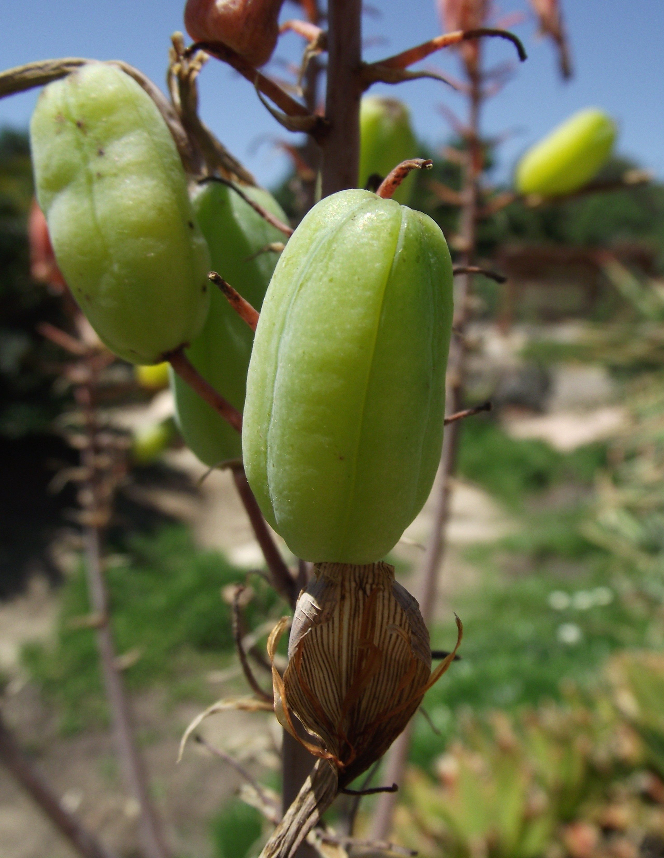 Aloe fosteri at the Los Angeles County Arboretum, Arcadia, California, USA. Identified by sign.